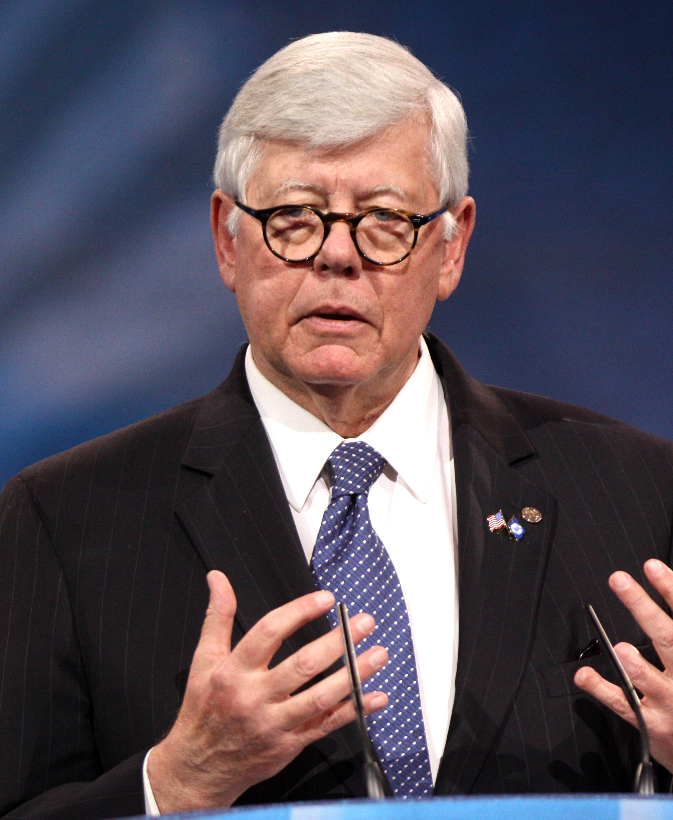 David Keene speaking at the 2013 CPAC in Washington D.C. on March 16, 2013.